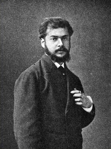 Photo of Swedish painter Ernst Josephson